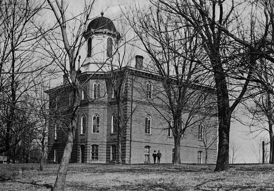 Pritchett School Institute, Glasgow, Howard County, MO; Building initial construction ca. 1869, Historic American Buildings Survey, Library of Congress HABS MO,45-GLASG,18